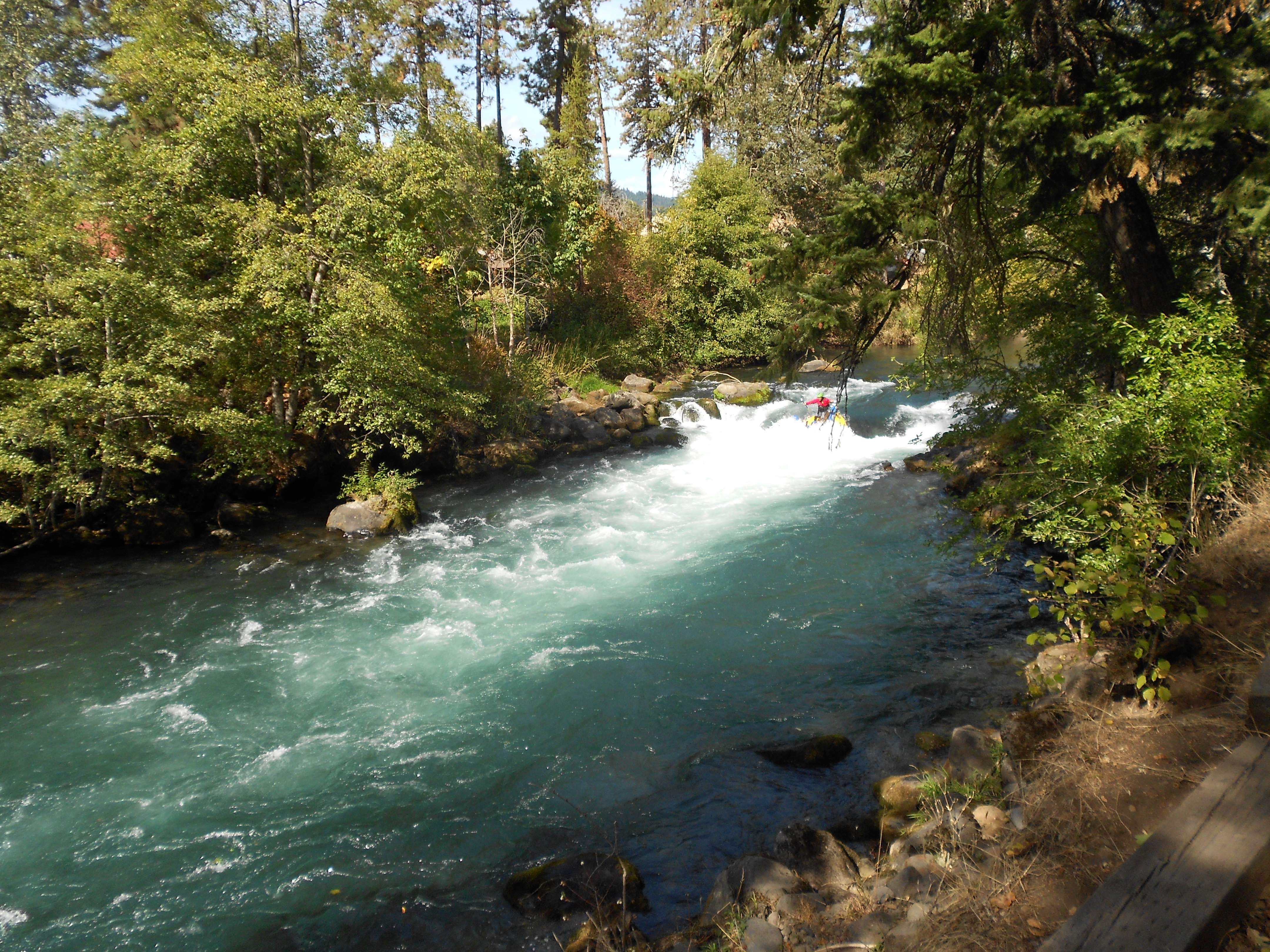 The (Big) White Salmon River in southern Washington state